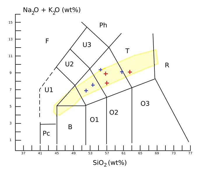 Rock compositions of the Puy de la Nugère, Chaîne des Puys, France, plotted in the TAS-diagram. Blue crosses are tephras. Yellow background depicts the total realized compositions in the Chaîne des Puys